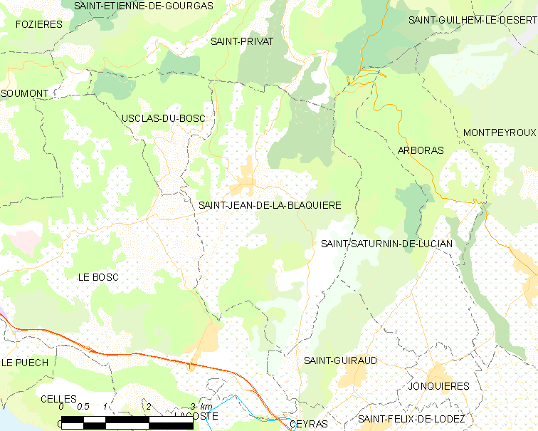 Map commune FR insee code 34268.png - Saint-Jean-de-la-Blaquière